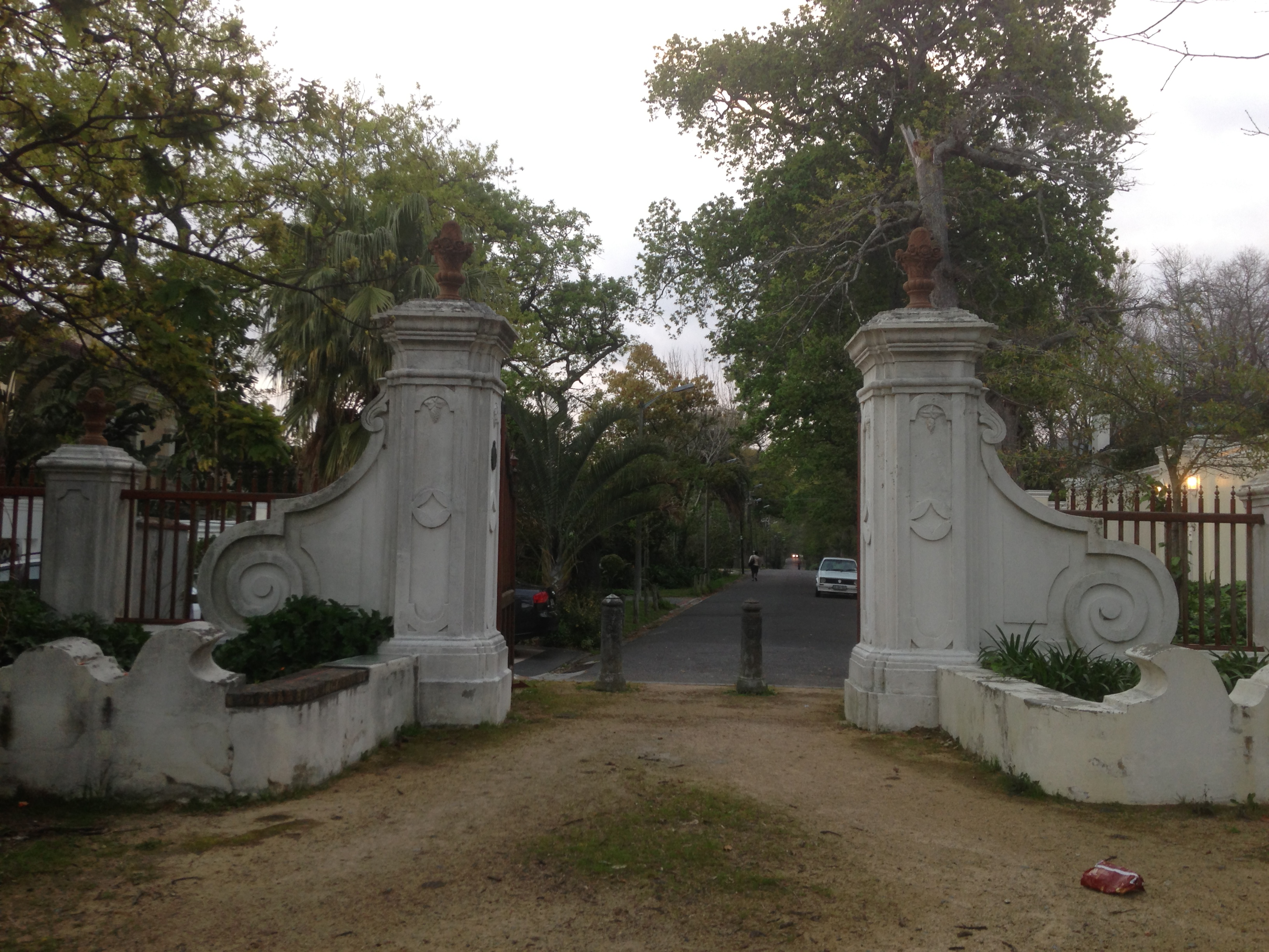 Boshof gateway, Paradise Road, Newlands, Cape Town Adjoining historic Rondebosch lies Newlands, named so by Ryk Tulbagh when he built a new country residence for the Governor and ploughed up “new lands” there. In 1666 the land that lay in the fork formed by the “old wagon road to the forest” and the main Type of site: Gateway, House . This media shows a South African Protected Site with SAHRA file reference 9/2/111/0106/001.